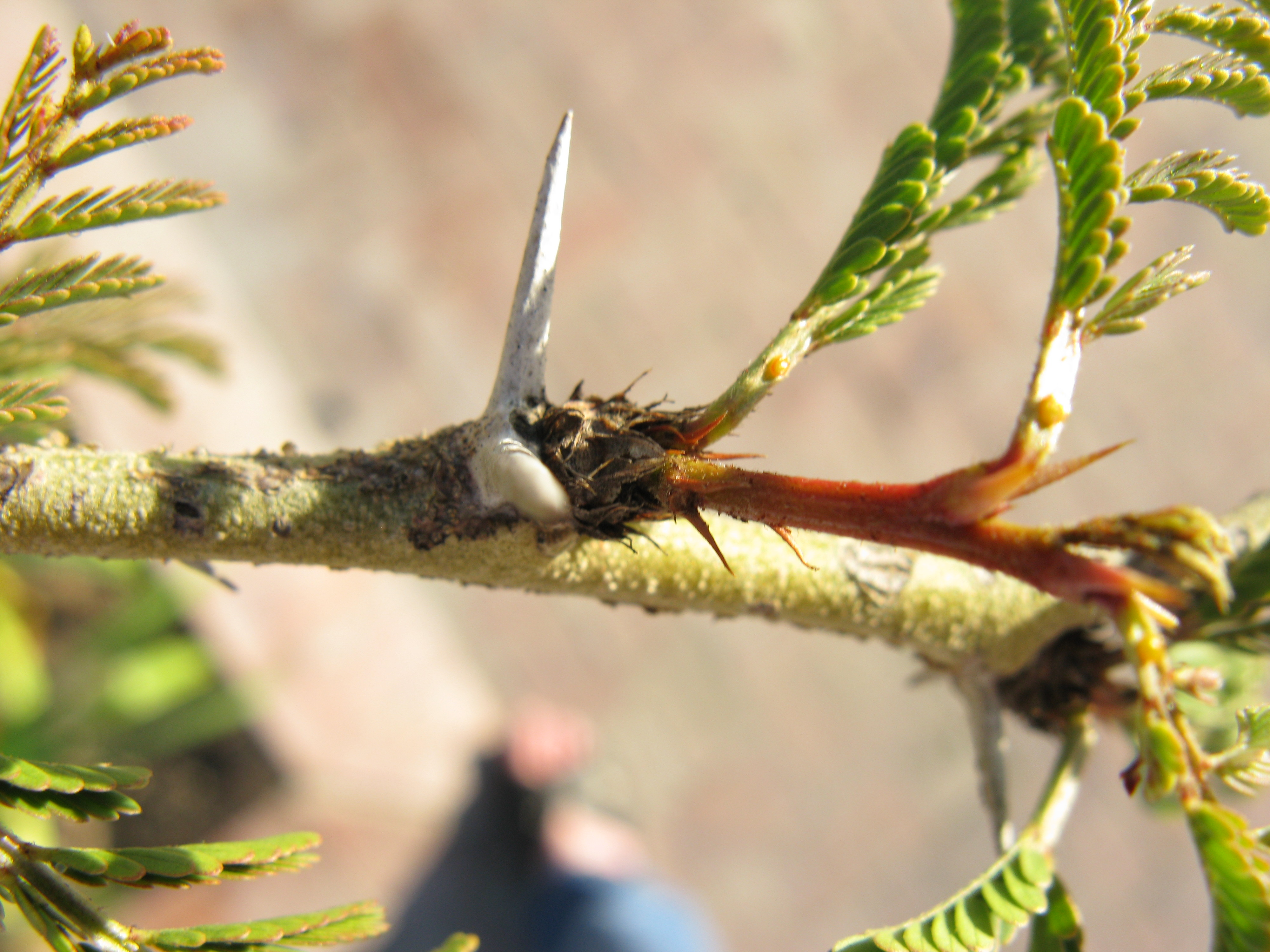 Spines and emerging spring leaves of Acacia xanthophloea. The spines of African Acacias such as this are modified stipules. Note the emerging stipules beginning to form spines, and the older, hardened spines at the bases of shoots.